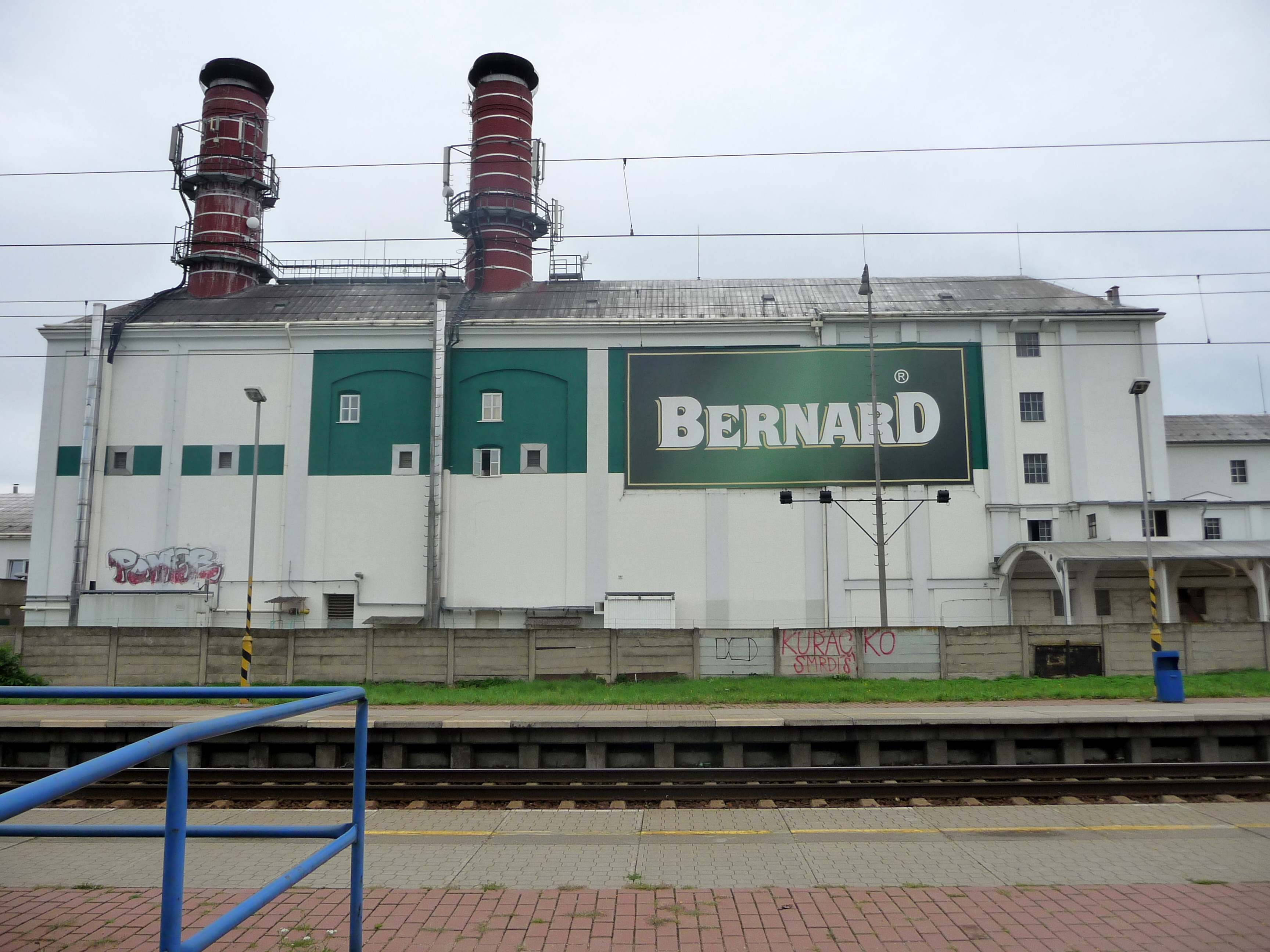 Bernard bewery buildingTicket marker, Rajhrad - train station